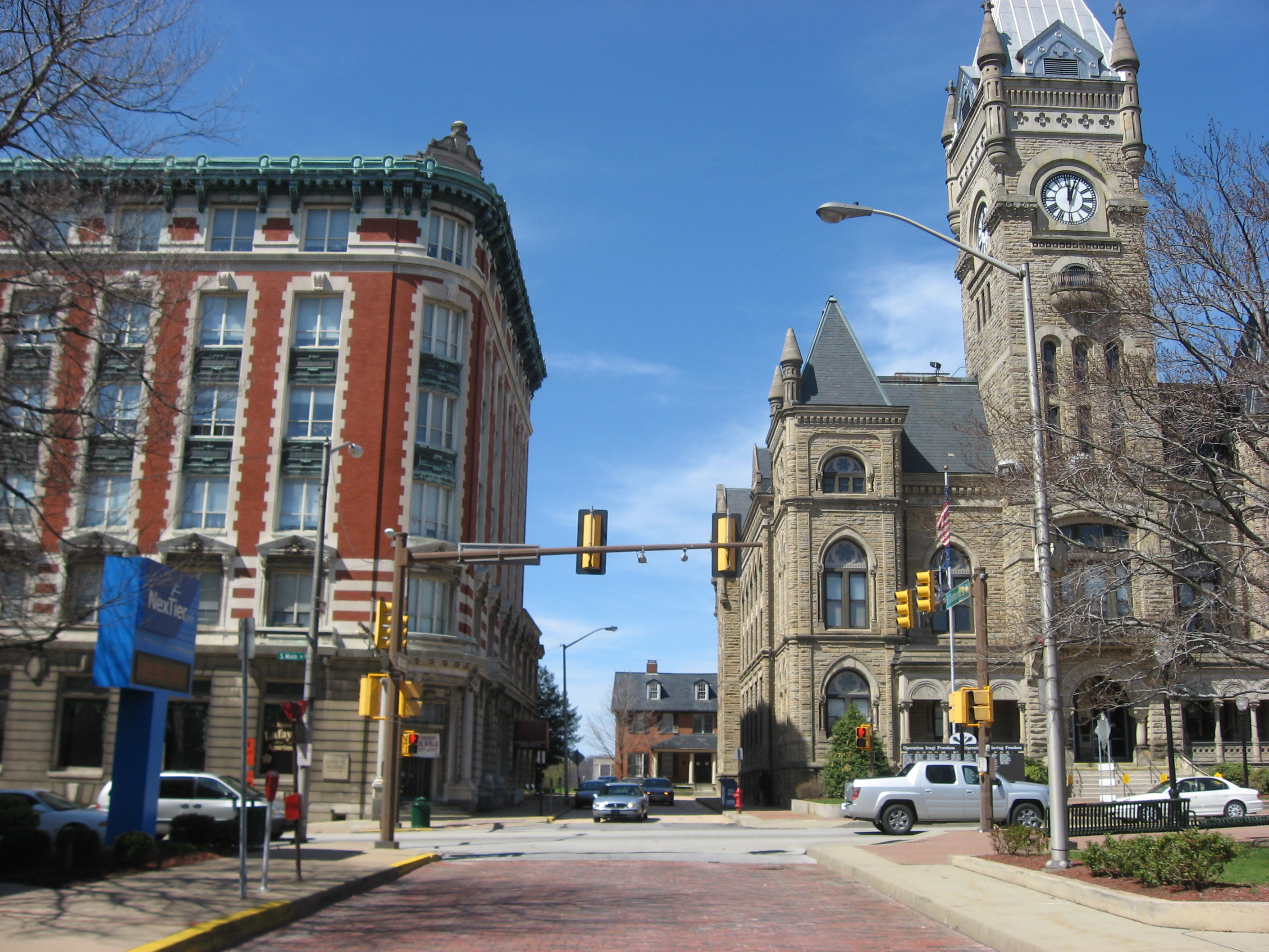 Buildings in the Butler Historic District, located in downtown Butler, Butler County, Pennsylvania, United States. From left to right, they are the Butler County National Bank, the Sen. Walter Lowrie House, and the Butler County Courthouse. The district is listed on the National Register of Historic Places, as are the three buildings by themselves.